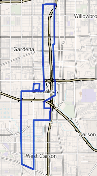 Map of the Harbor Gateway neighborhood in southern Los Angeles, California. This map may be incomplete, and may contain errors. Don't rely solely on it for navigation.